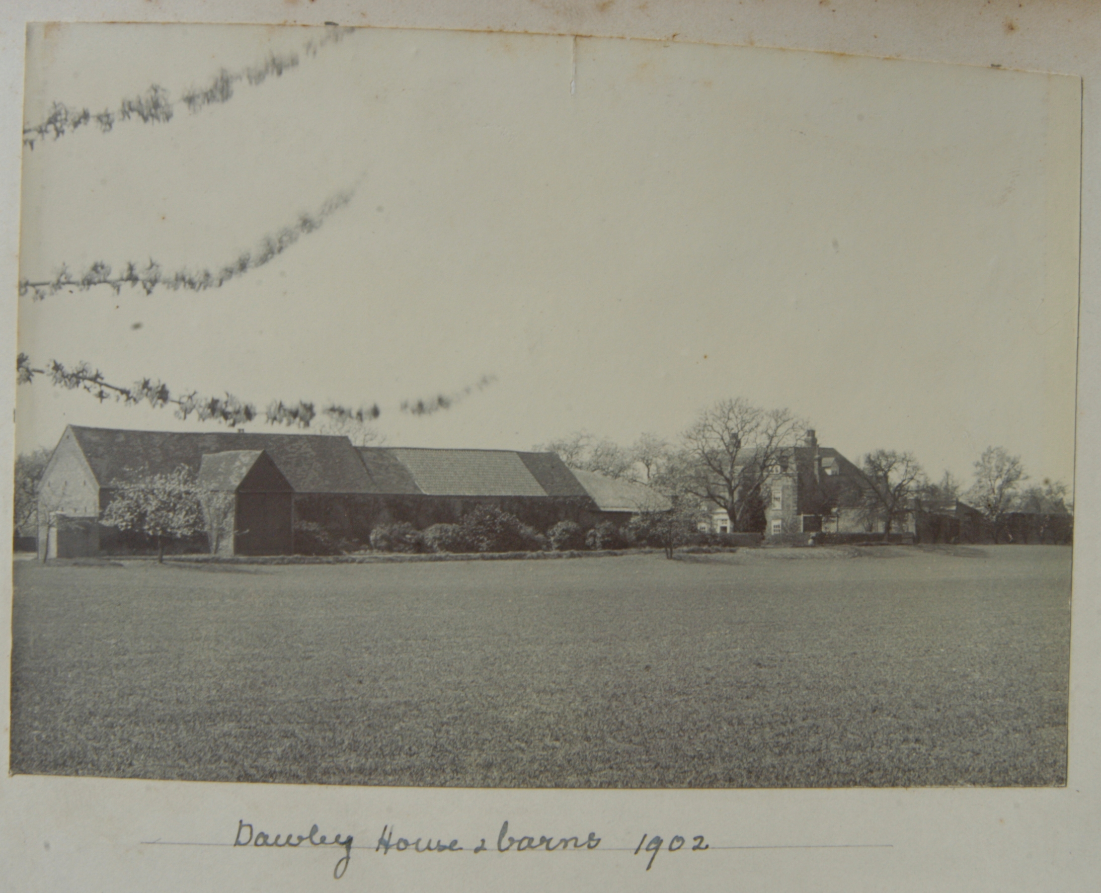 Photograph (by me, R. de Salis, Rodolph (talk) 21:07, 20 July 2015 (UTC)) of an anon. photograph of Dawley House & barns, Harlington, Middlesex, 1902.